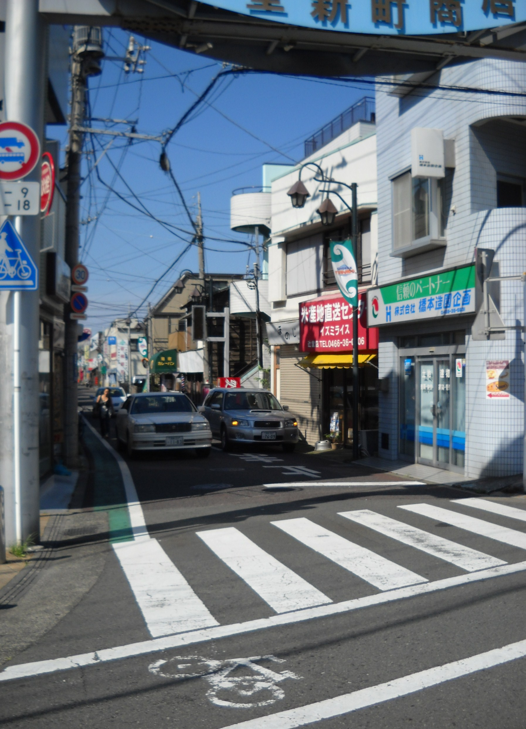 Kanagawa prefectural road route 307 start point, Fujisawa city, Kanagawa pref., Japan